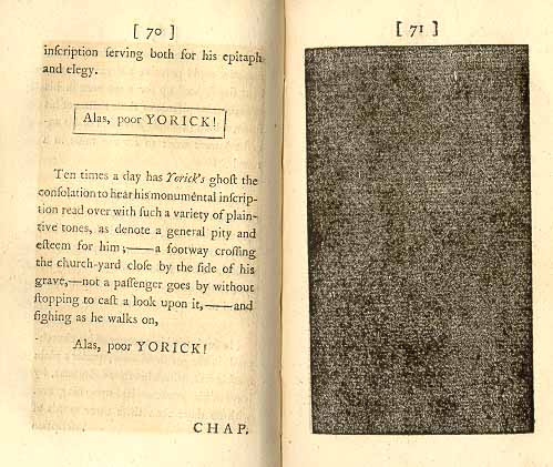 Two pages of the 1769 edition